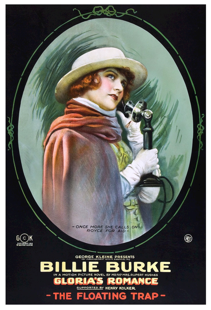 Poster for the 1916 film Gloria's Romance.